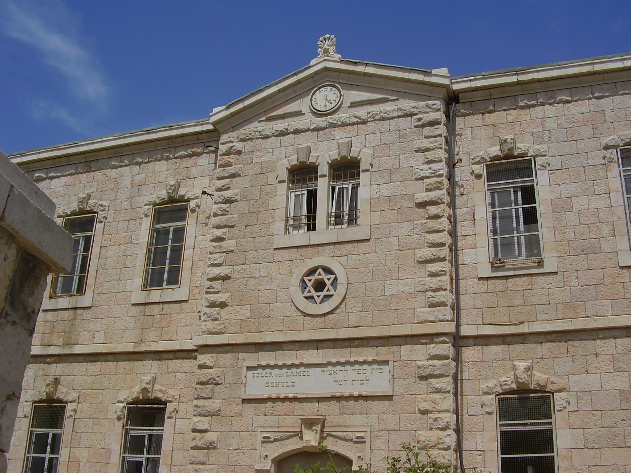 Lemel School in Jerusalem